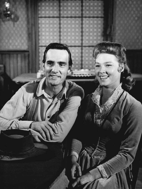 Photo of Dennis Weaver as Chester Goode and guest star Mariette Hartley from the television program Gunsmoke.